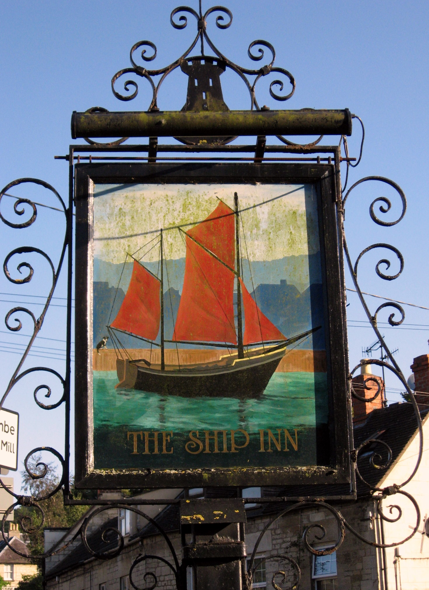 Inn sign at Brimscombe, Gloucestershire showing a Severn Trow